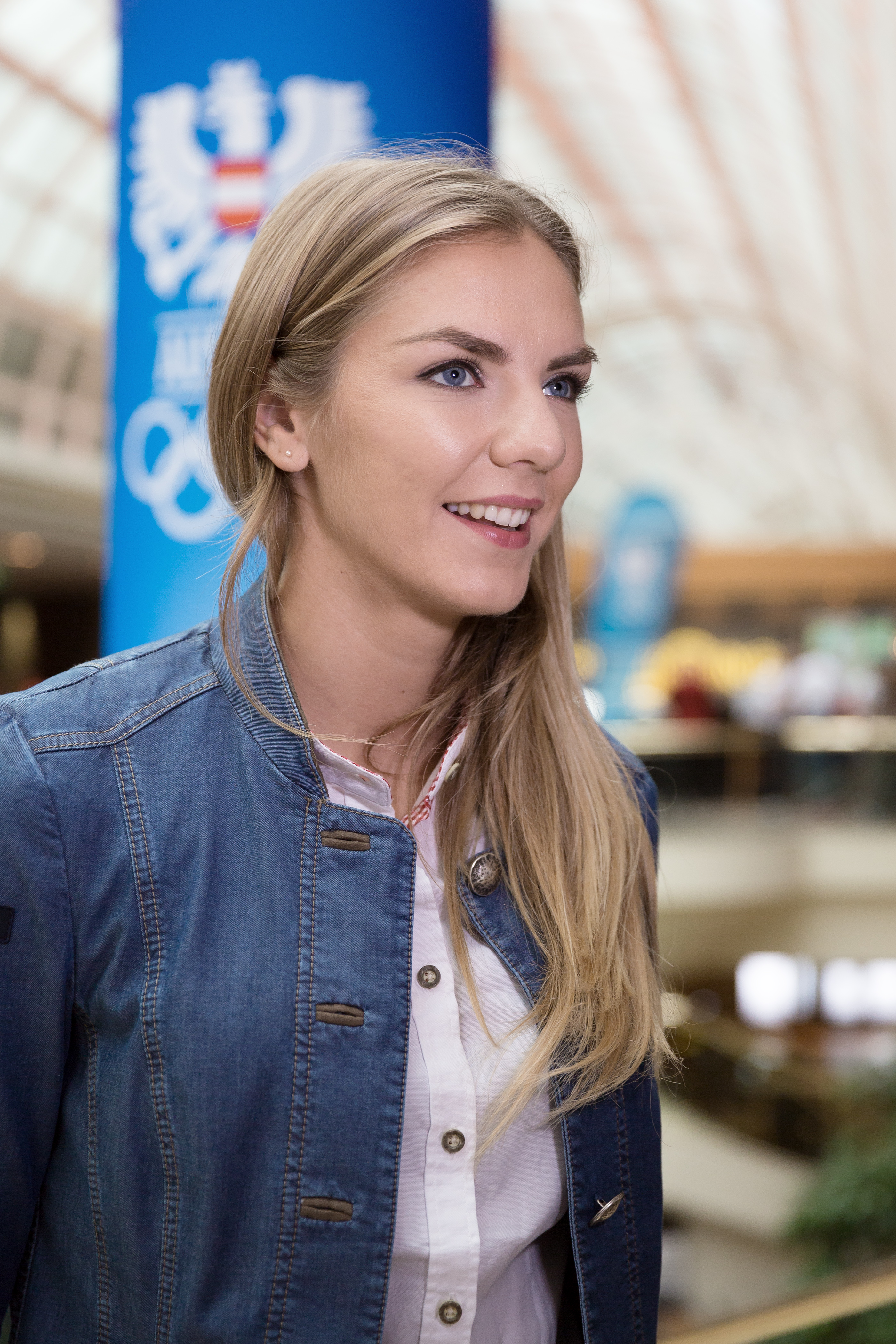 Ivona Dadic at the hand-out of the Austrian teams official attire for the 2016 Summer Olympics (Marriott, Vienna).